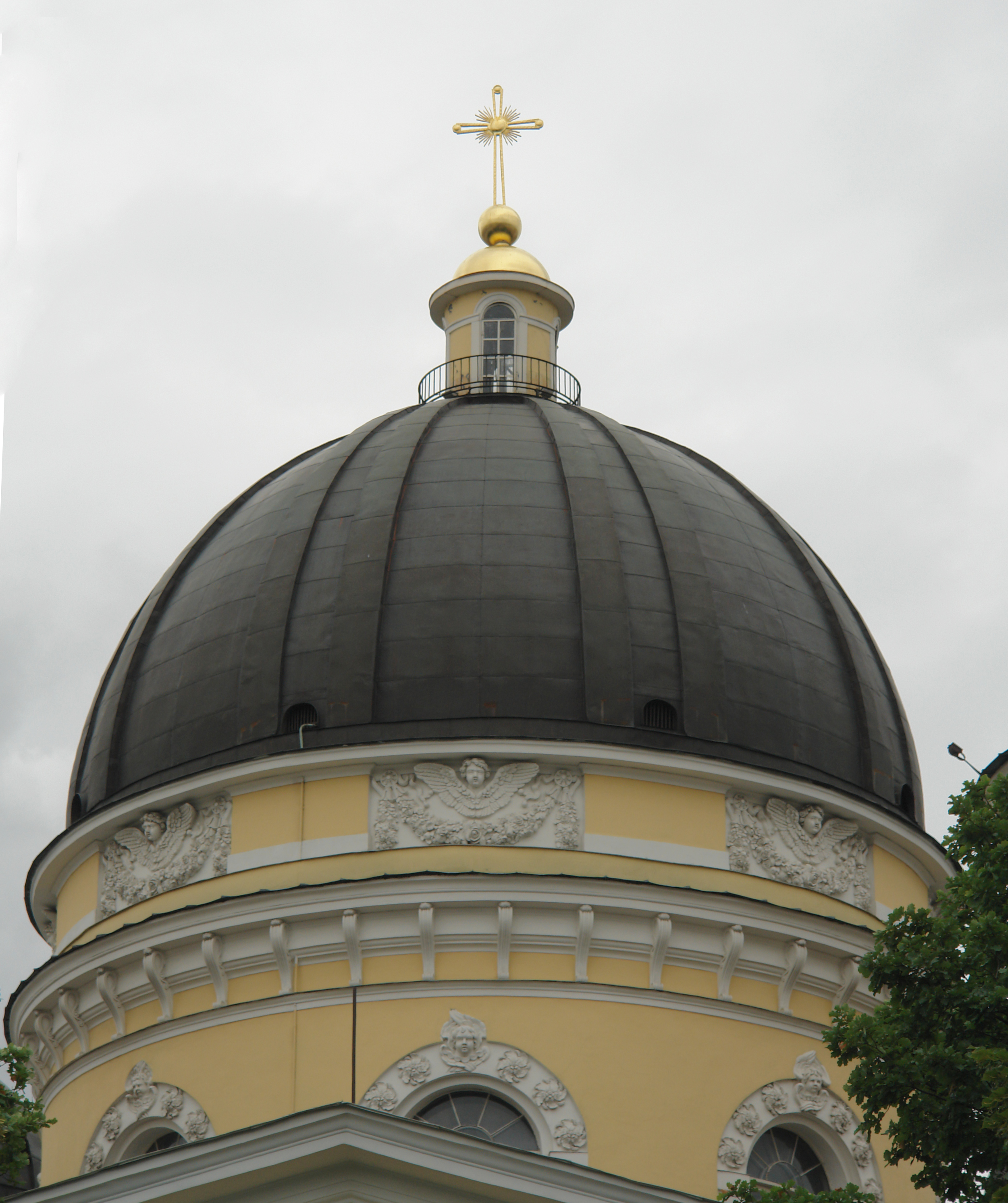 The central dome of Transfiguration Cathedral in Saint Petersburg (view from Nevsky Prospekt).